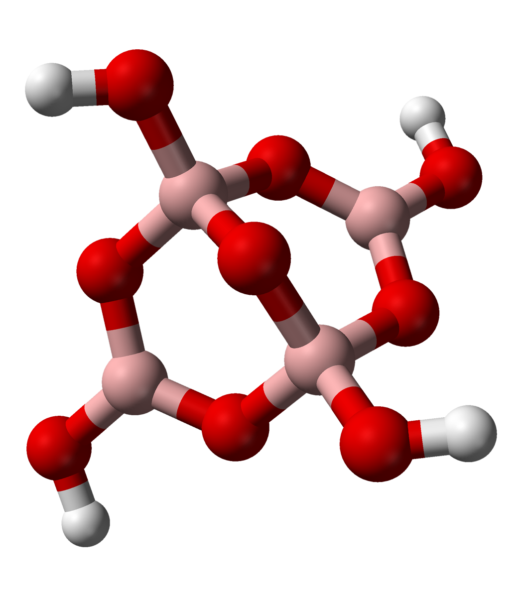 Ball-and-stick model of the tetraborate anion, [B4O5(OH)4]2−, in crystalline borax, Na2[B4O5(OH)4]·8H2O. Neutron diffraction data from H. A. Levy and G. C. Lisensky (December 1978). "Crystal structures of sodium sulfate decahydrate (Glauber's salt) and sodium tetraborate decahydrate (borax). Redetermination by neutron diffraction". Acta. Cryst. B 34 (12): 3502-3510.